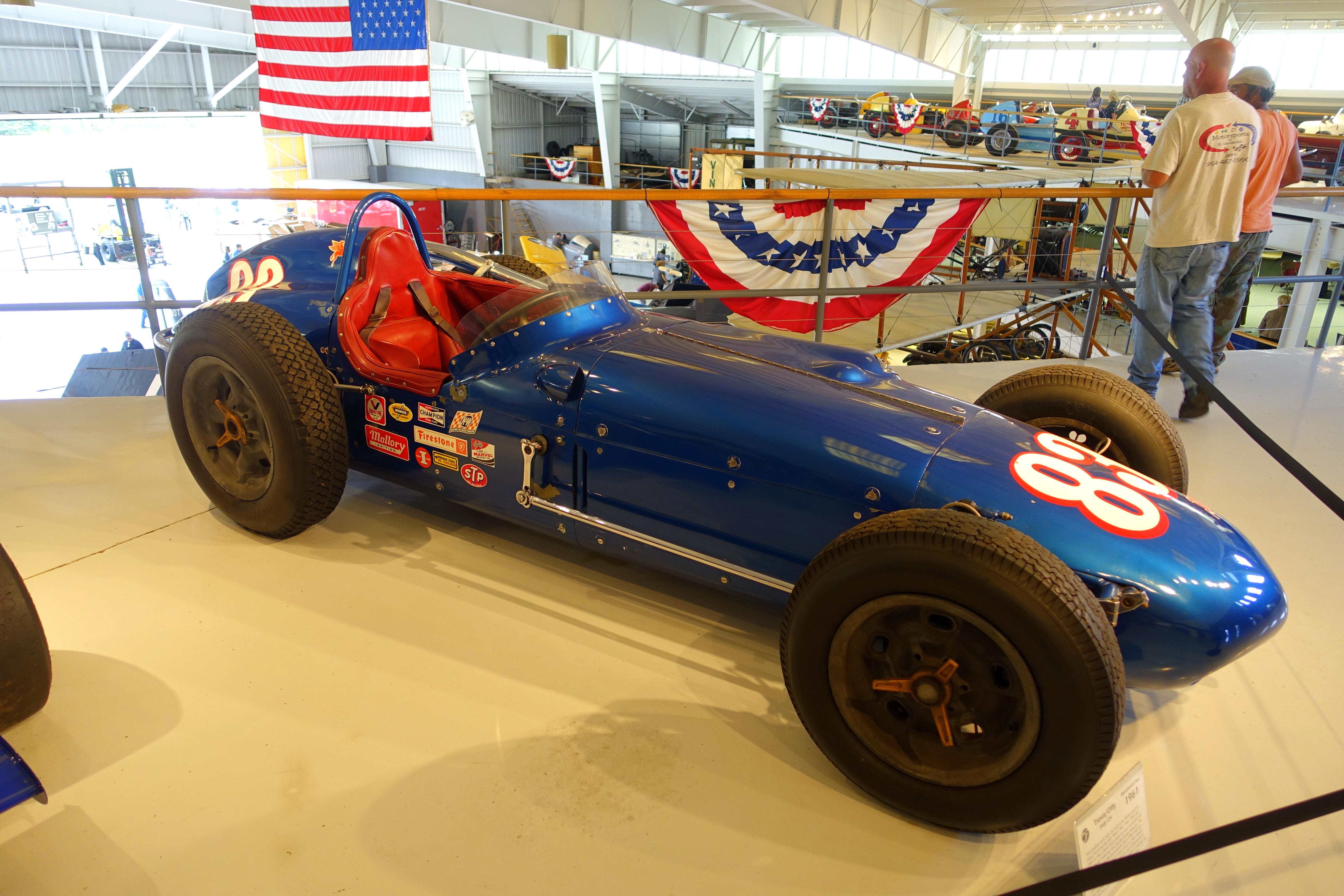 Exhibit in the Collings Foundation - Stow / Hudson, Massachusetts, USA.